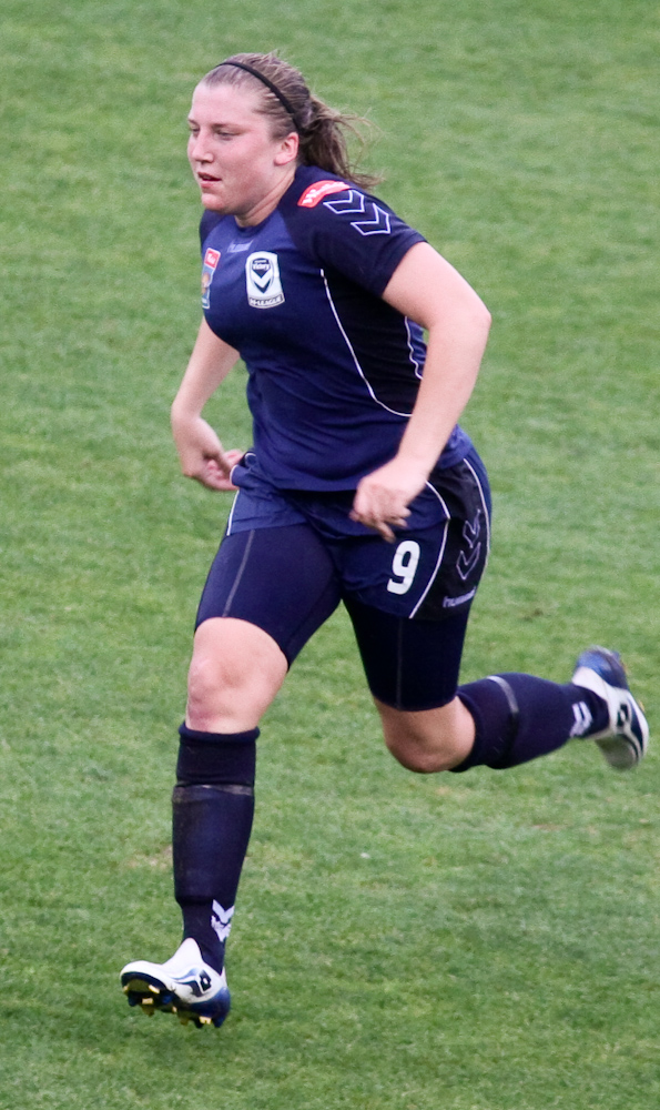 Rebecca Tegg playing for Melbourne Victory in the W-League against the Central Coast Mariners.